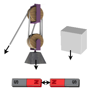 A few images illustrating forces